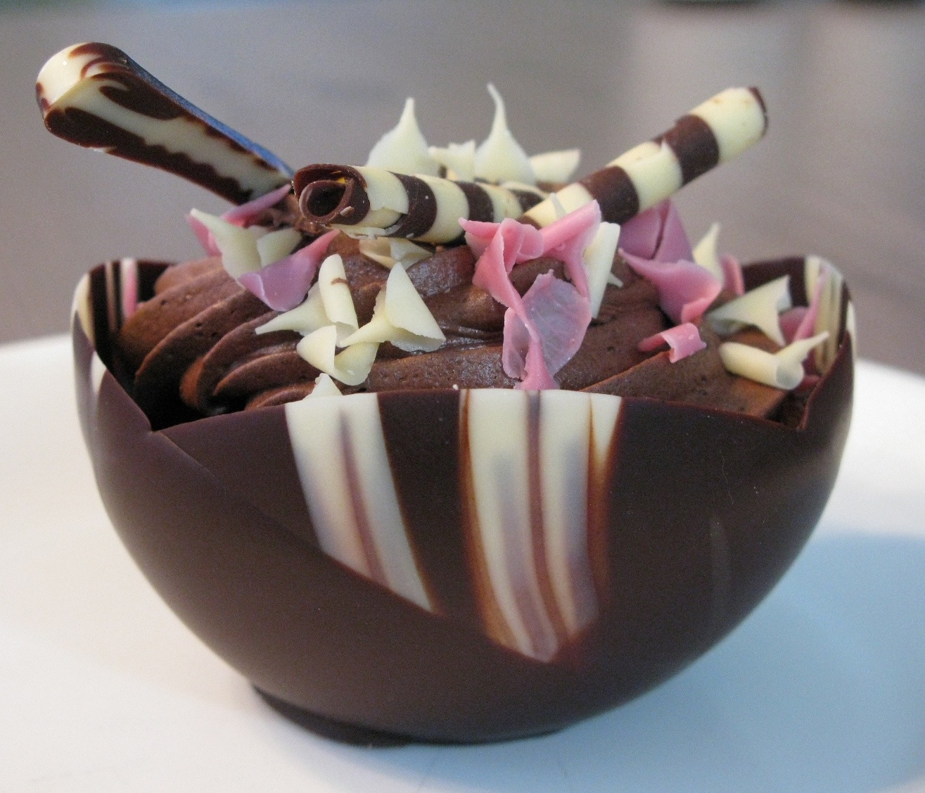 Chocolate mousse cupcake, there is cake under the mousse, everything edible. sprinkled with an edible glitter. With chocolate straws & a little chocolate spoon in the mousse frosting. New bakery opened close by.